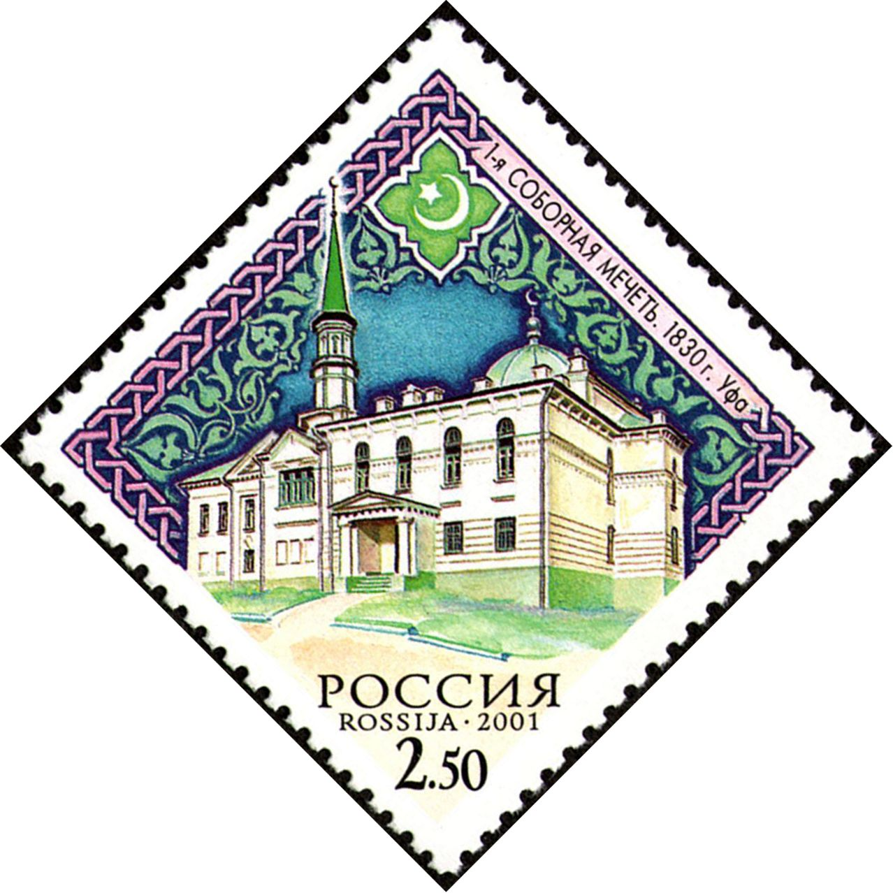 Religious buildings of Russia.Islam.The First Cathedral Mosque in Ufa, also known as the Tukaev Mosque or the Old Mosque. 1830, was rebuilt in 1890 by the architect I. Myalov. The mosque is under the jurisdiction of the Central Muslim Spiritual Directorate (2012). The stamp of Russia, 2.50 rubles, 12 July 2001, PTC Marka Catalogue No 694, Michel No 926, Scott No 6649. Coated paper. Offset printing. Multicoloured. Perforation: comb 11½. Size of the stamp: 37×37 mm. Print run: 350,000.